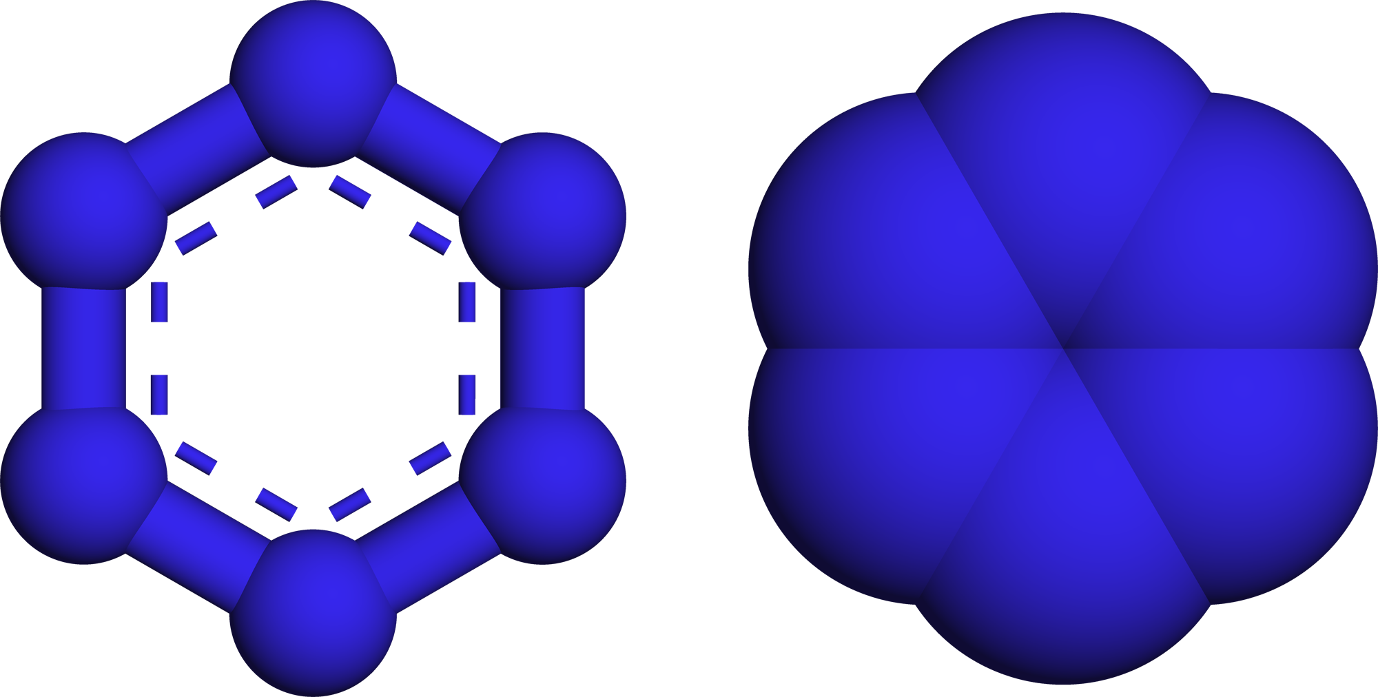 Models of the hexazine molecule.